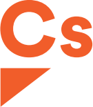 Isotype of Ciudadanos. January 2017 version.